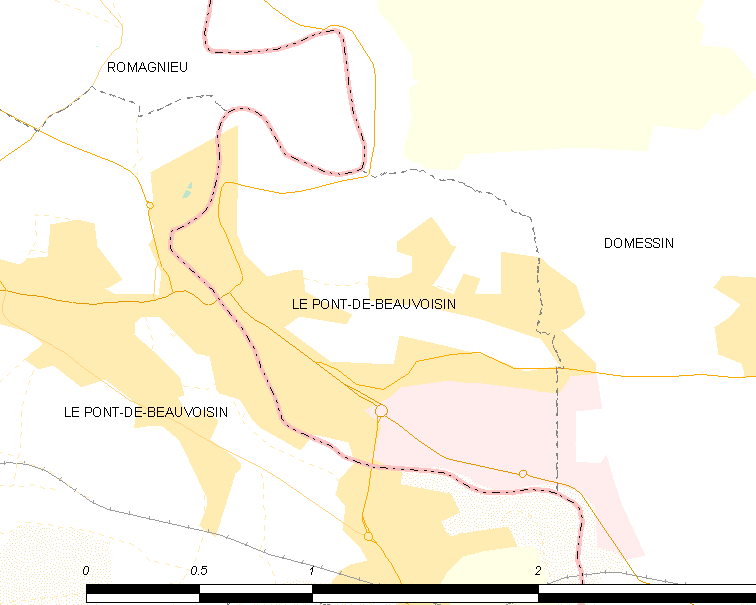 Map of French municipality